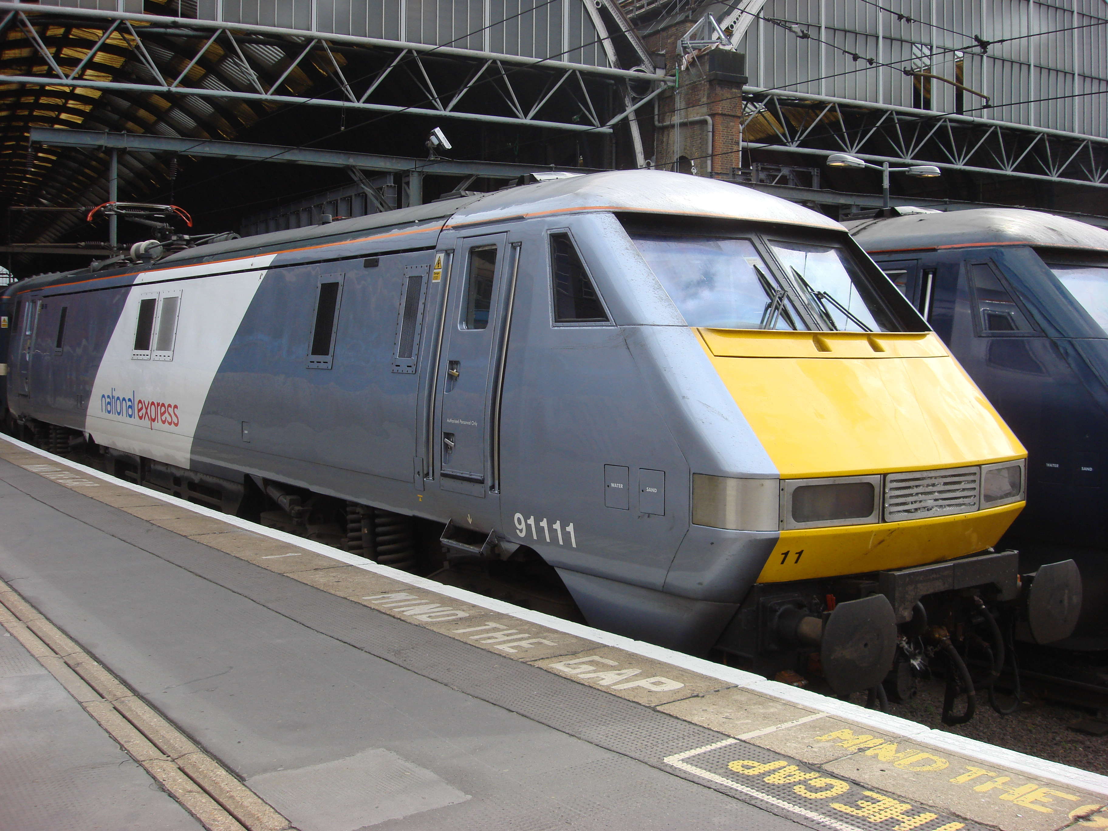 91111 at Kings Cross